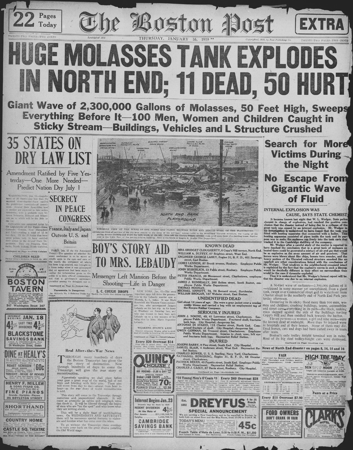 Boston Post edition of January 16, 1919 describing the Boston Molasses Disaster